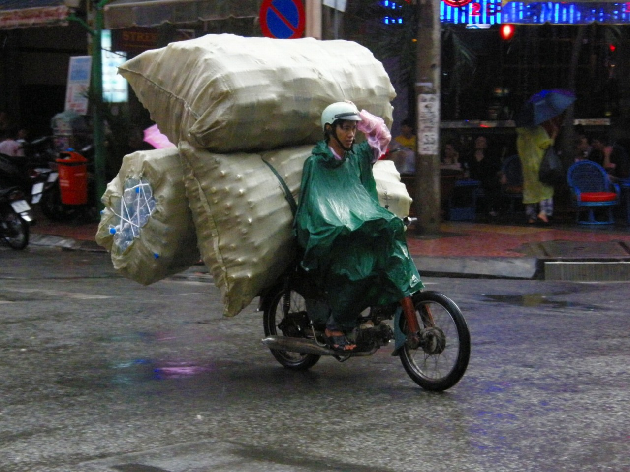 super cub